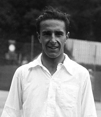 Spanish tennis players Manuel Alonso and Isabella Fonrodona, at the 1920 World Hardcourt Championships at Paris